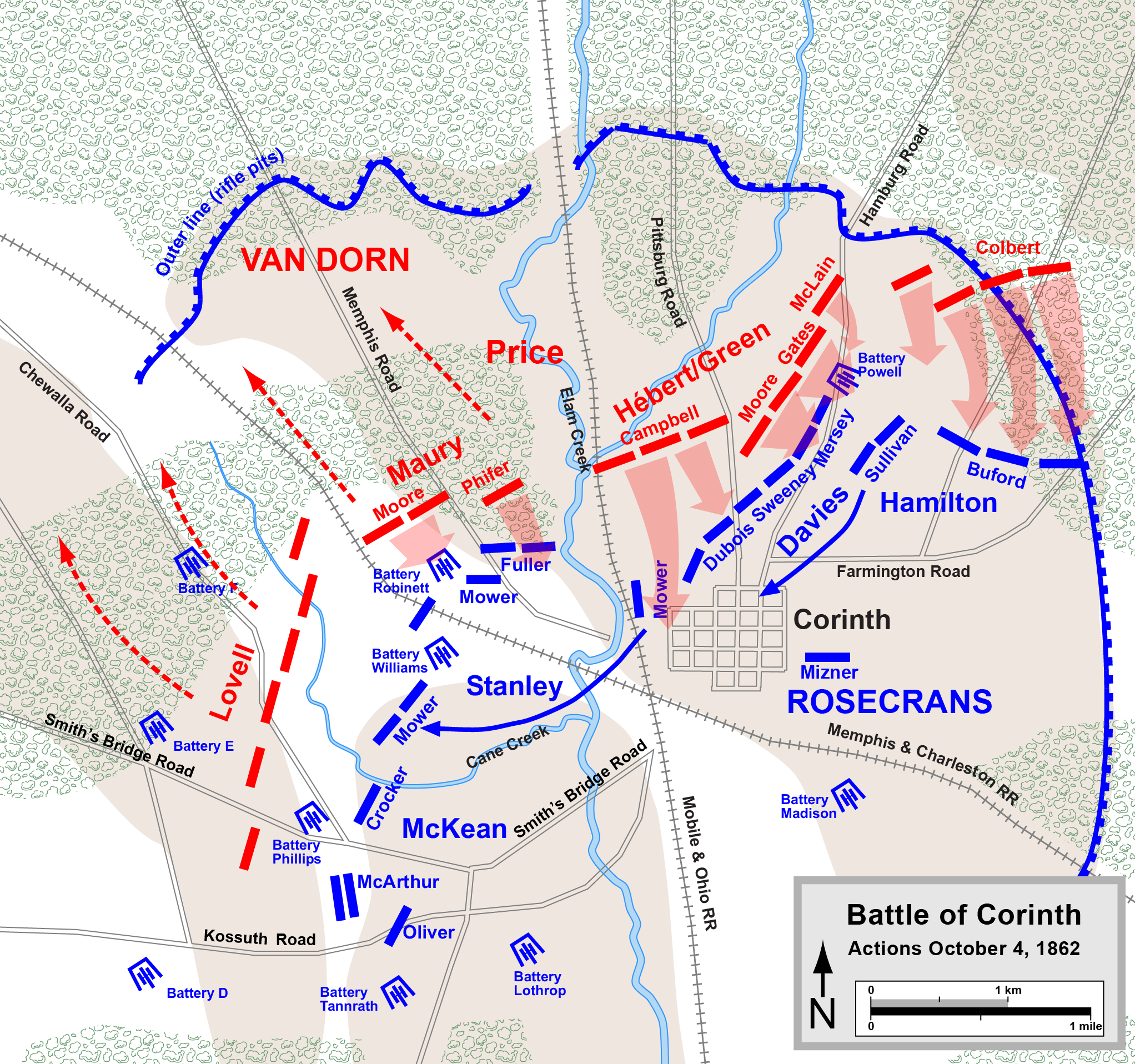 Map of the second day of the Second Battle of Corinth of the American Civil War.